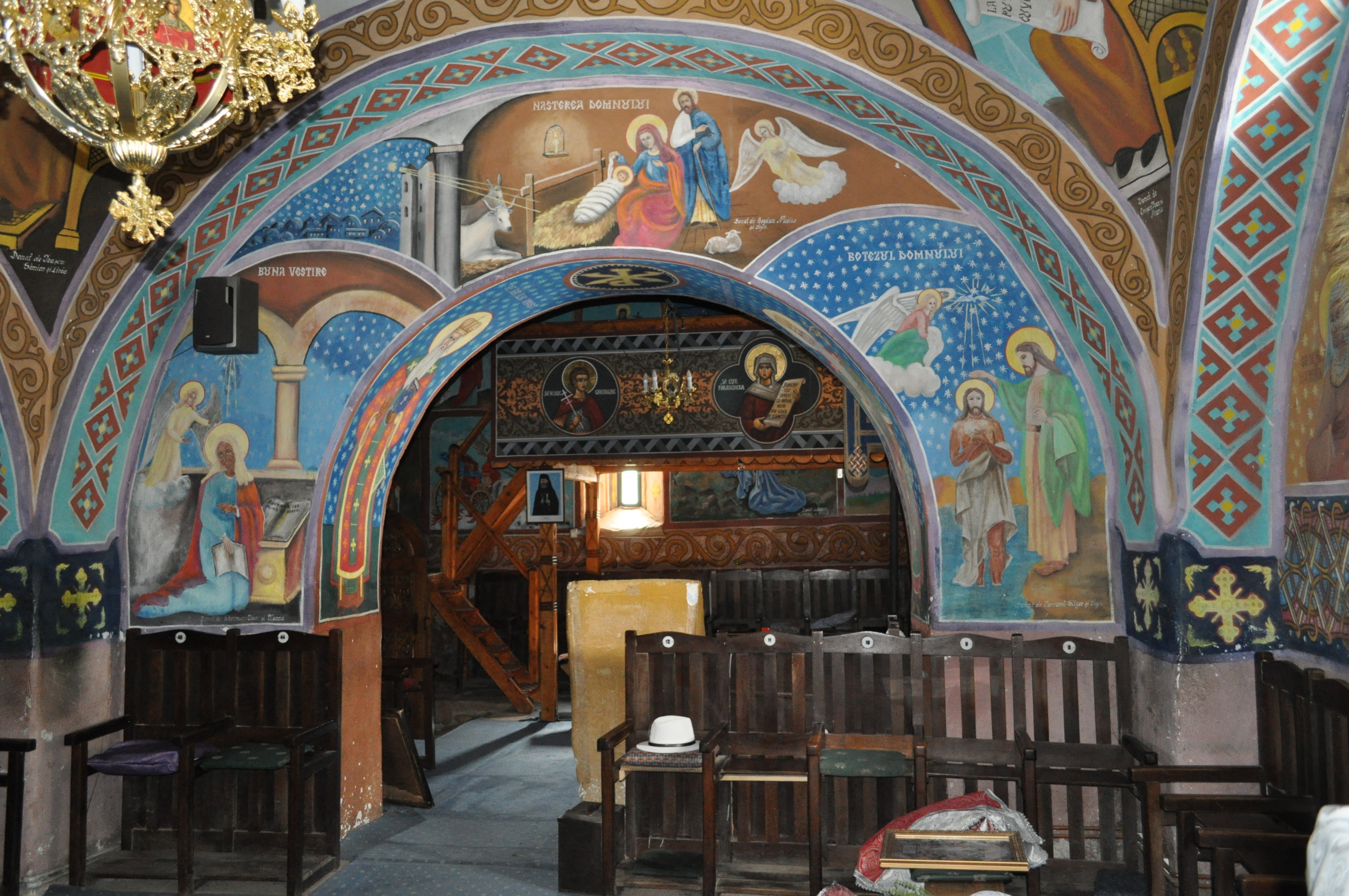 Saint Paraskeva's church in Ampoița, Alba county, Romania